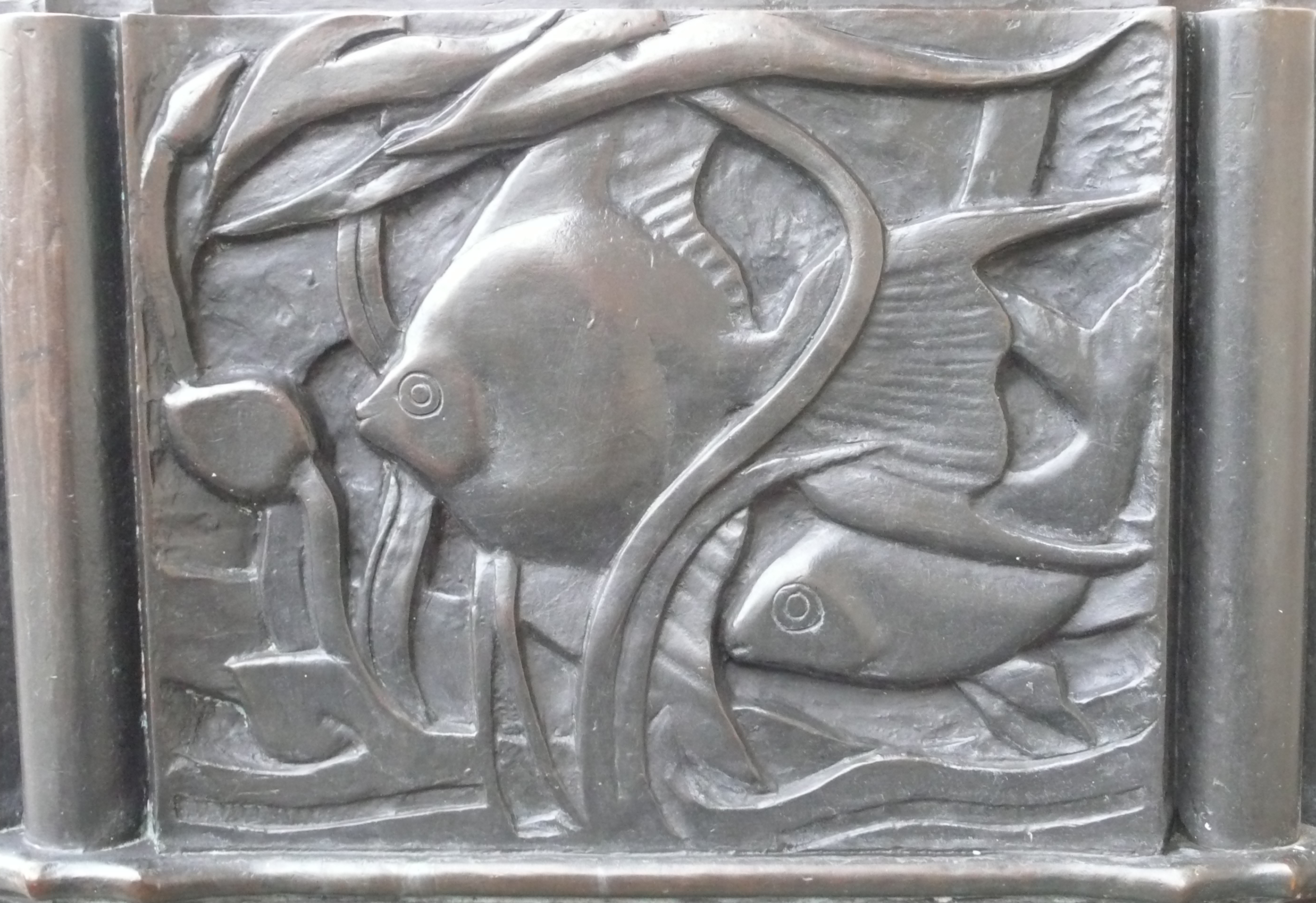 Fishes on the bronze wotnot by the Guildhall in Cambridge/UK